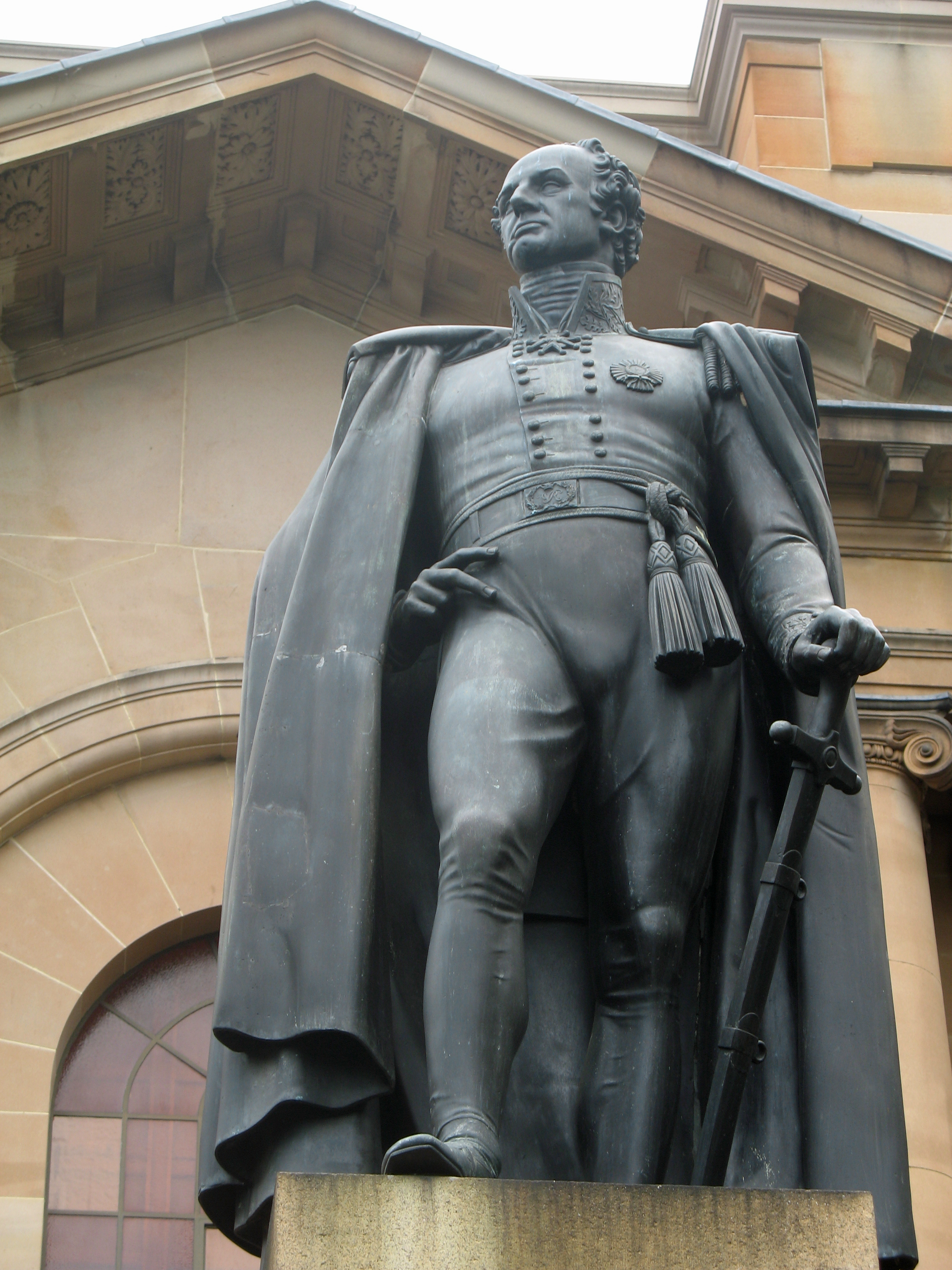 Statue of Richard Bourke, outside the State Library of New South Wales, Sydney, photographed by User:DO'Neil.